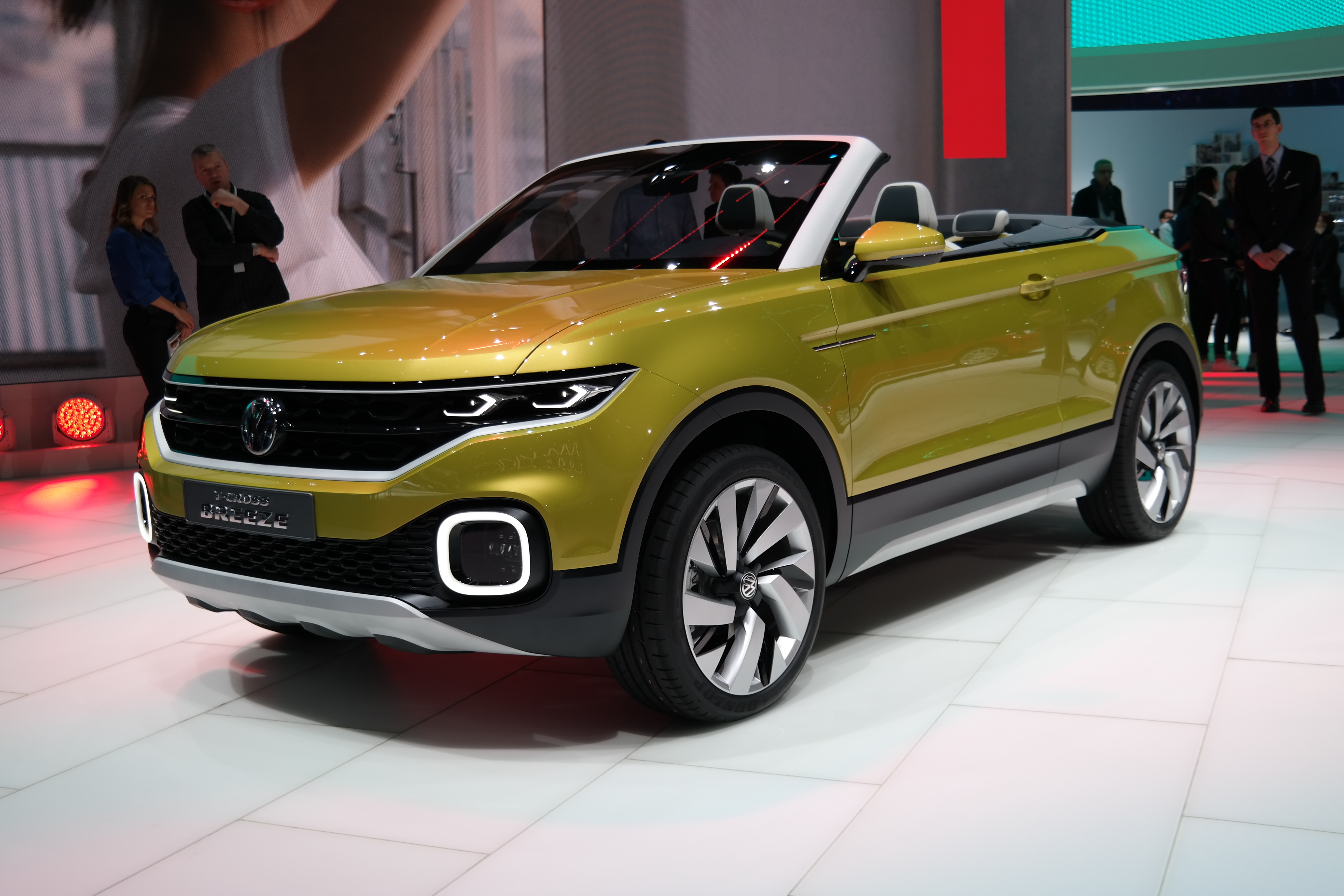 Geneva Motor Show 2016 (photo taken on the first press day)